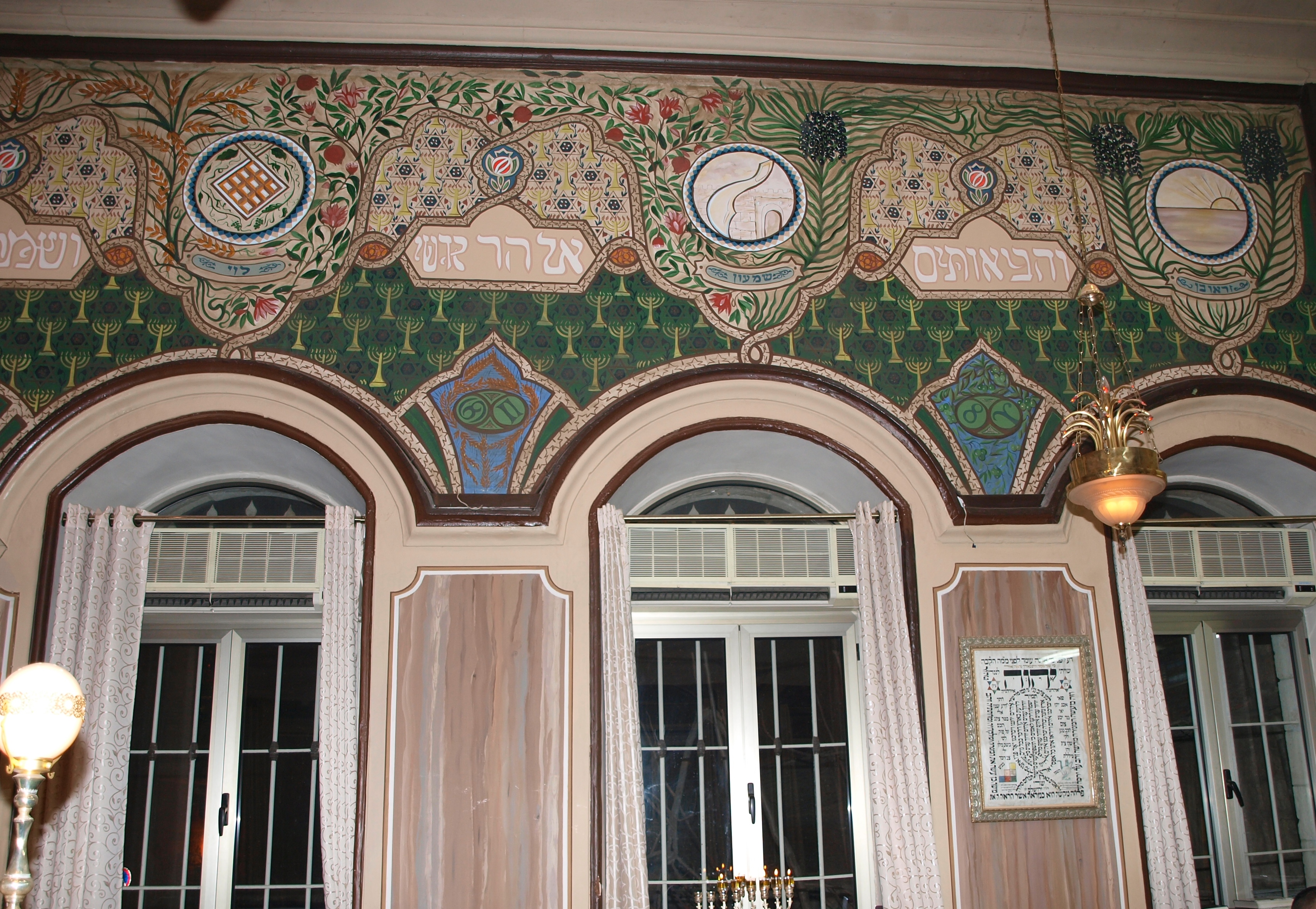 A'des synagogue, Jerusalem